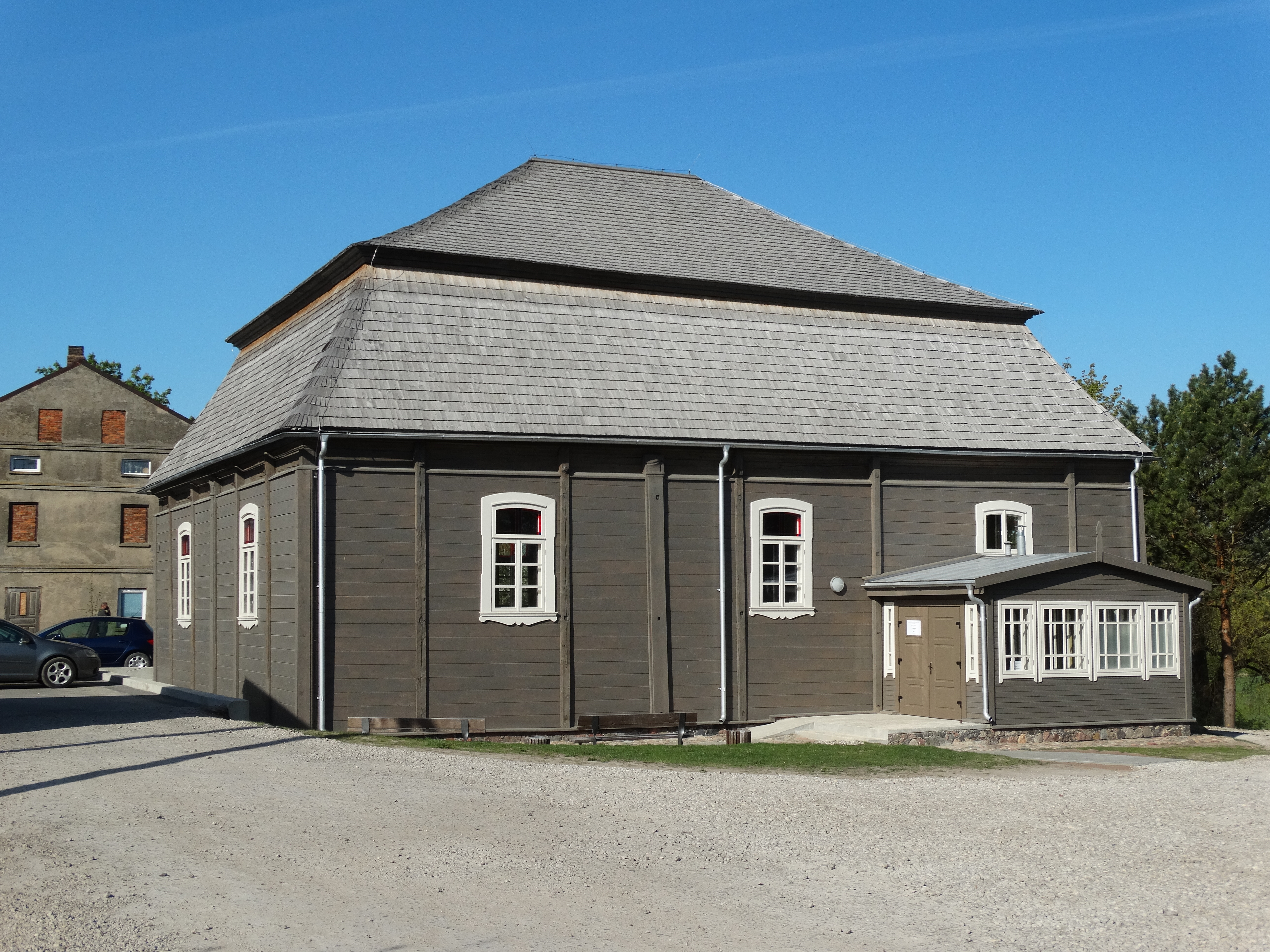 Synagogue, Pakruojis, Lithuania